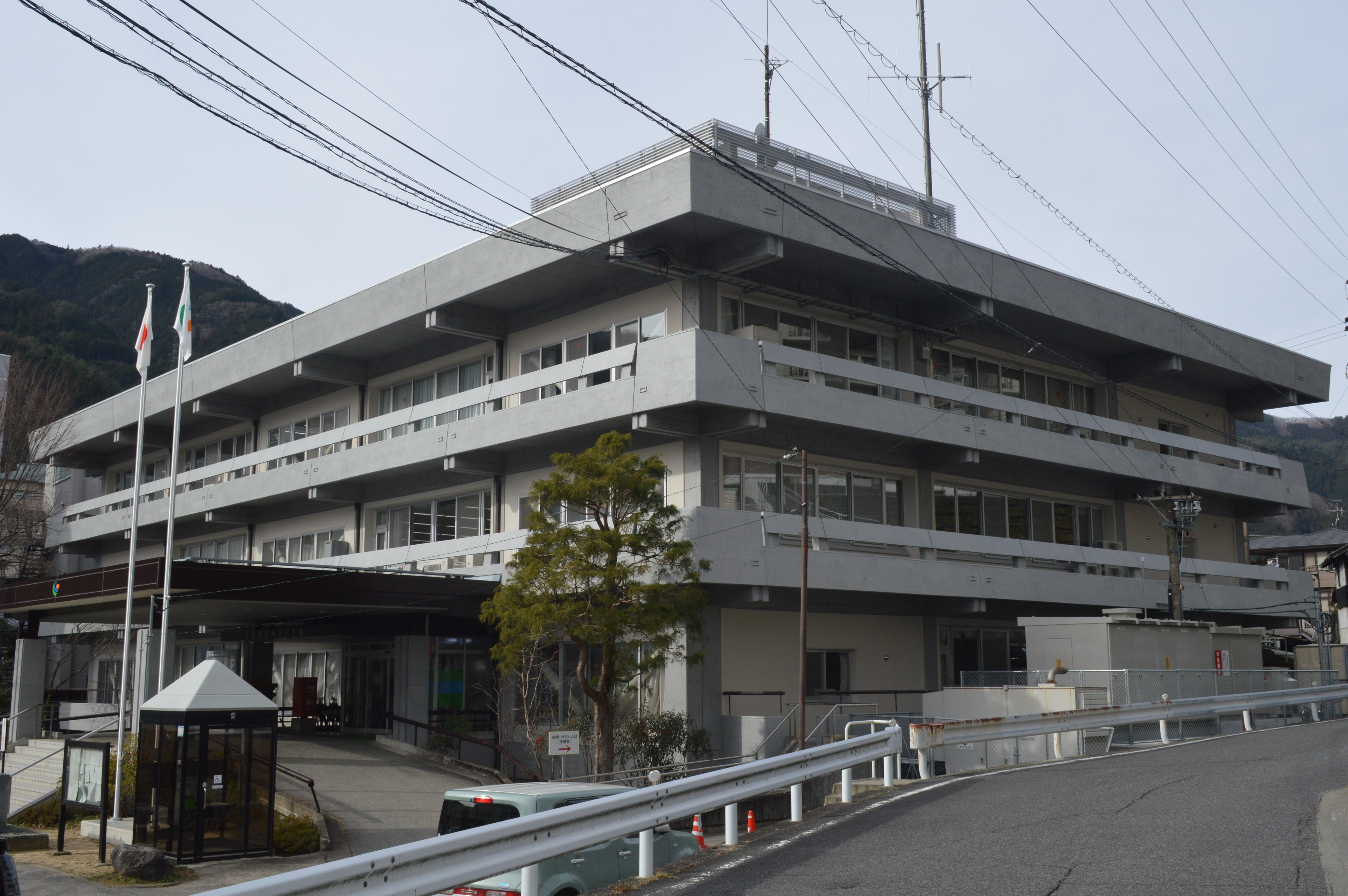 Gero City Hall in Gero city, Gifu Preferture, Japan.